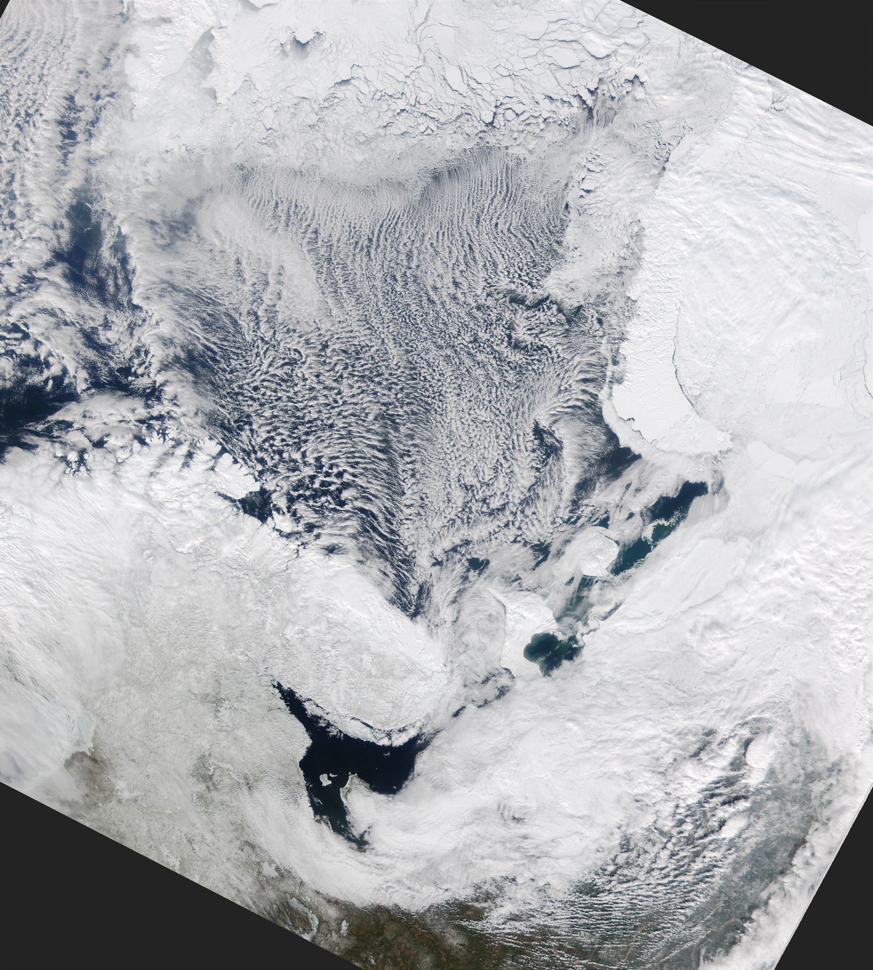 Satellite image of the White Sea, Russia.